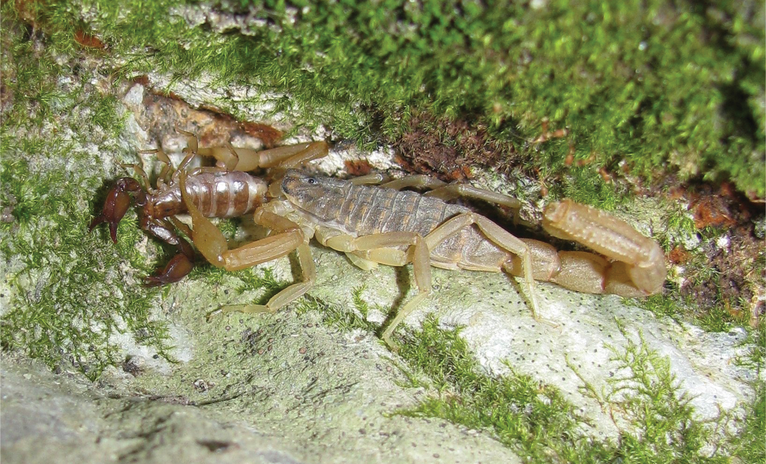 A Mesobuthus gibbosus feeding on Euscorpius avcii